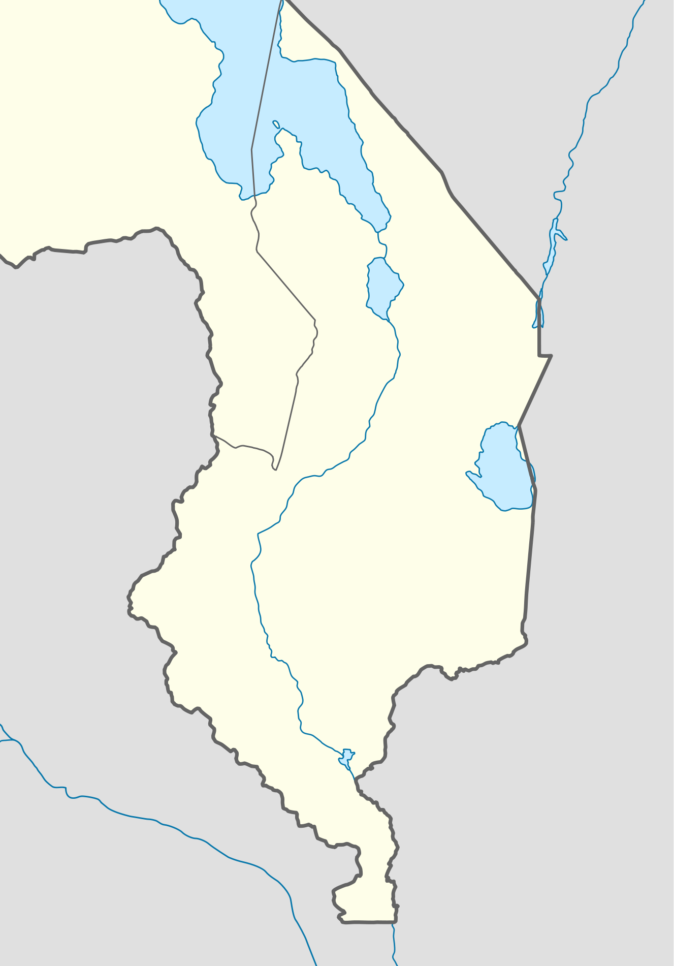 Shire river